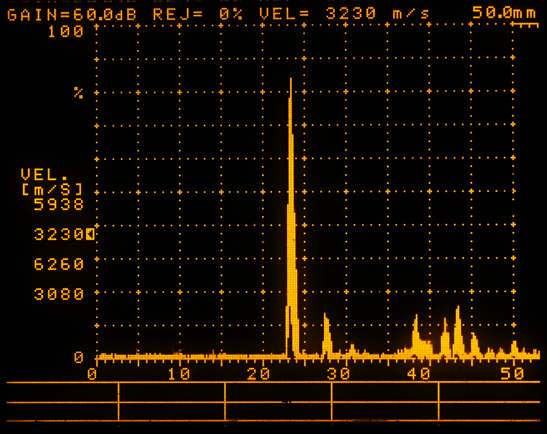 A-scan using a Sonatest D-SCAN 90 ultrasonic flaw detector, showing a crack in the weld of steel plate.